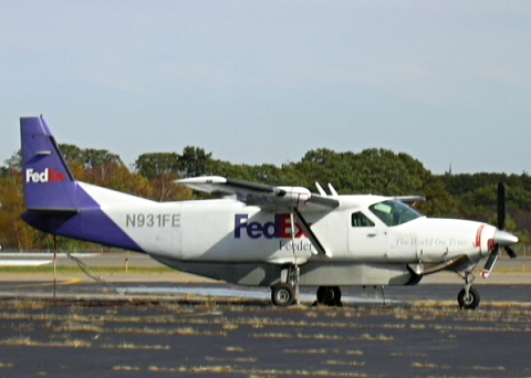 Cessna 208 Caravan (Wiggins Airways) at KPWM, Fall 2005. Taken by myself. (Nikon Coolpix 2000)